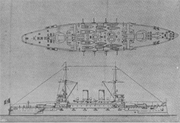 A plan for the upper deck and broadside view of the Regina Margherita-class battleship, Benedetto Brin, ca. 1902.